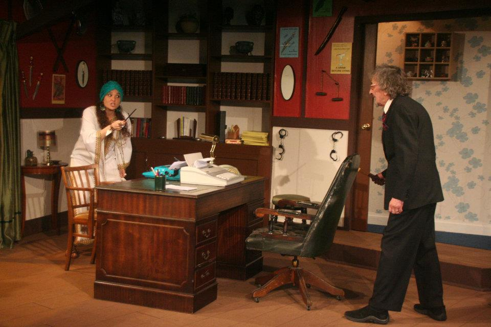 Patricia Mantuano - Stage -Deathtrap , playing Helga Ten Dorp by Ira Levin.